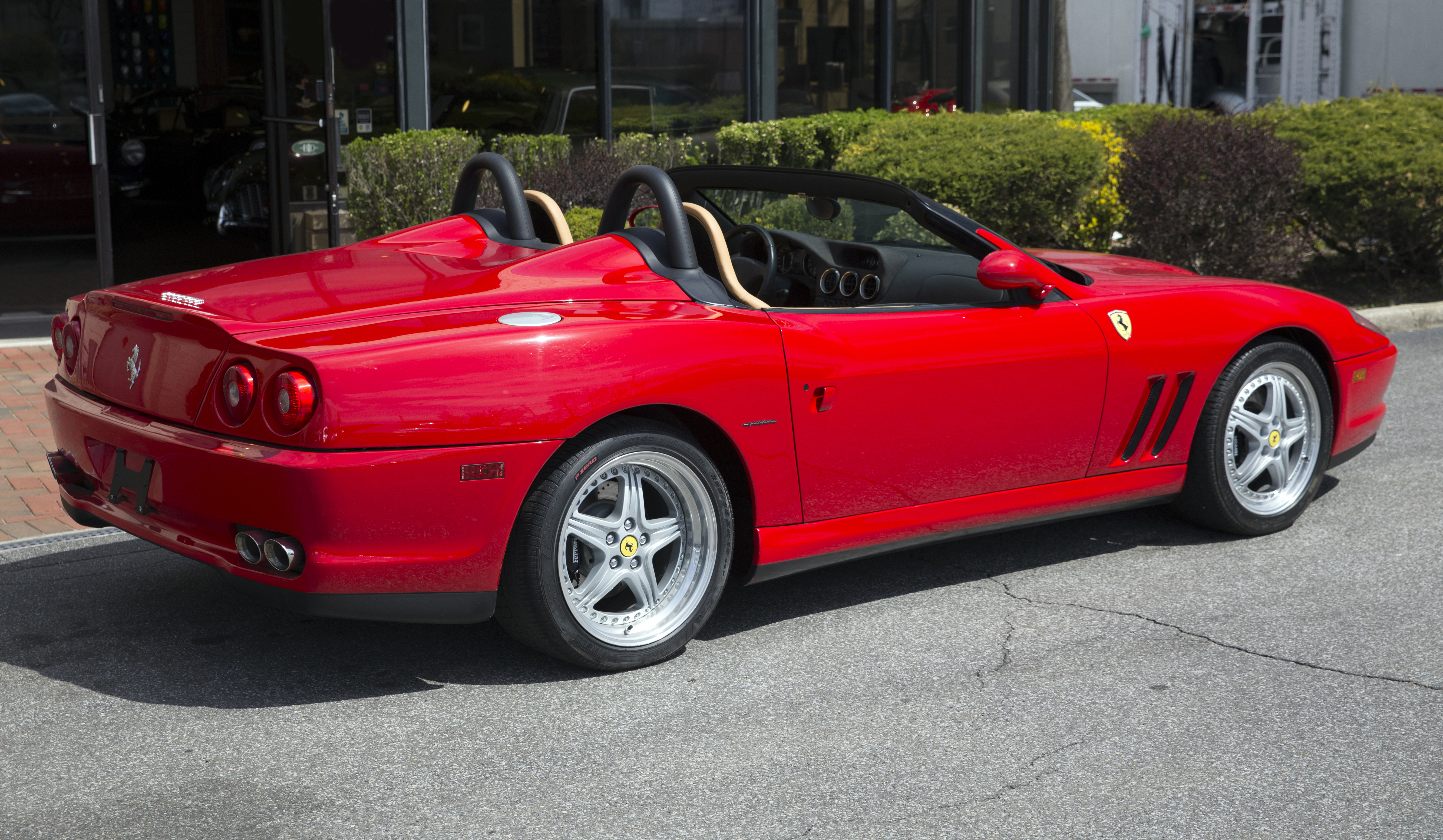 2001 Ferrari 550 Barchetta, the 135th car produced. Rosso Corsa with Pelle beige leather, 4000 miles. US-spec car, although it was originally delivered to an unspecified South American country. Includes the original Pininfarina open-faced helmets! Photographed at Autosports Designs in Huntington, NY (Long Island), from where it was very recently sold.